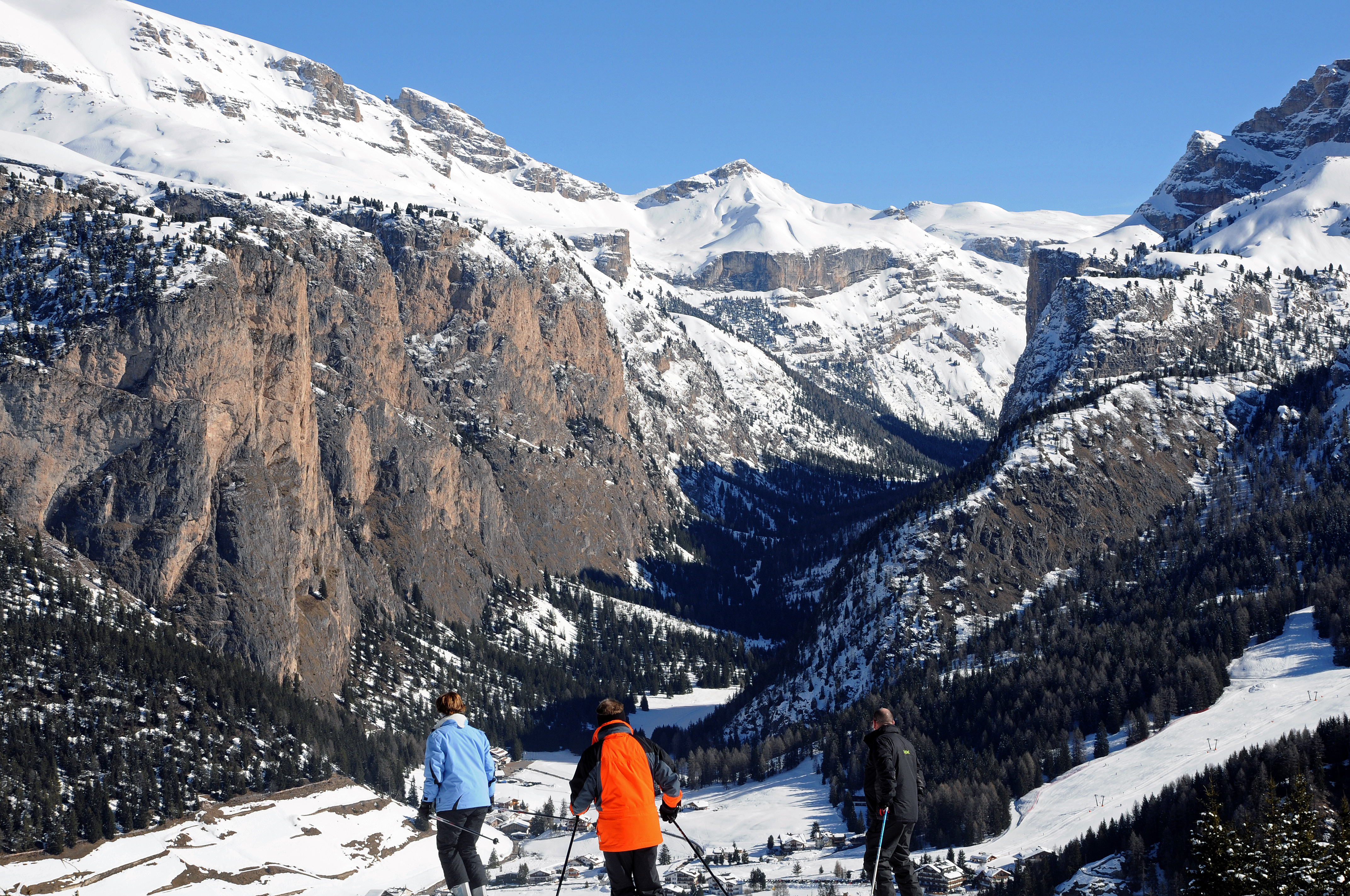 Langental Wolkenstein Gröden